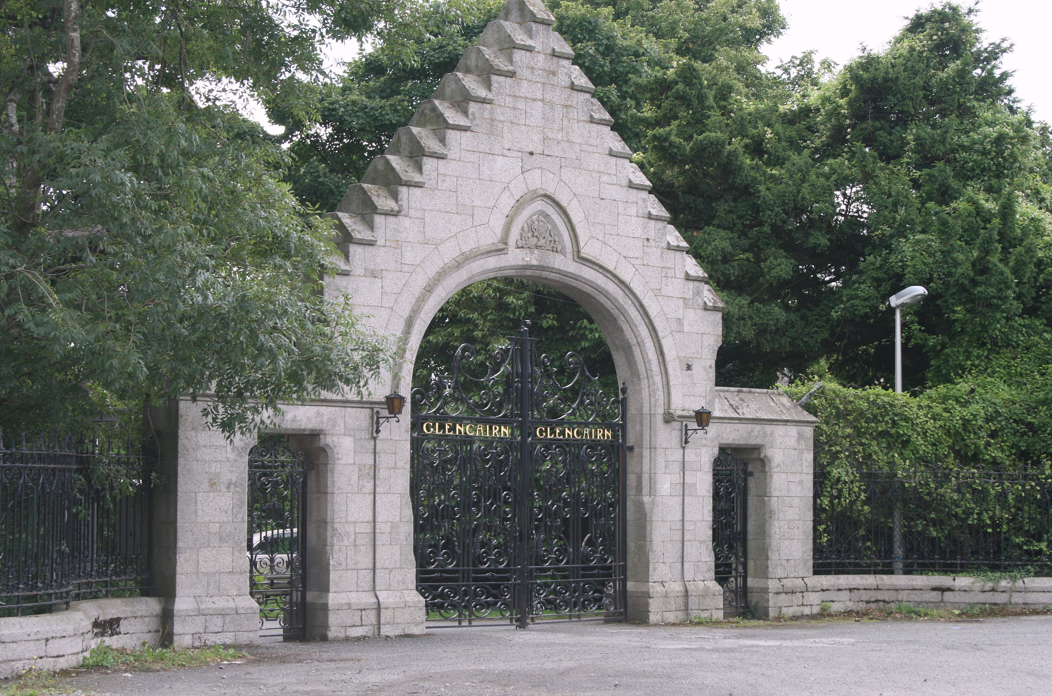 Entrance to Glencairn, the British Ambassador's residence in a suburb of Dublin, Ireland.